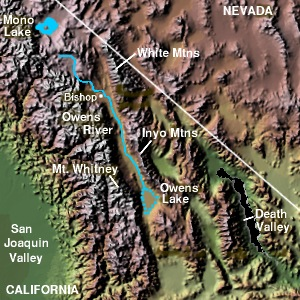 Topographic relief map of Owens Valley and Owens River, the Sierra Nevada, and the White Mountains in California — and a portion of the western Great Basin region in Nevada. © 2004 Matthew Trump